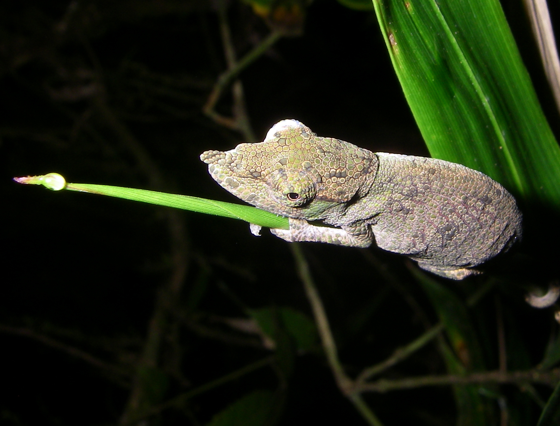 Calumma nasutum (Chamaeleonidae); Ranomafana National Park, Madagascar